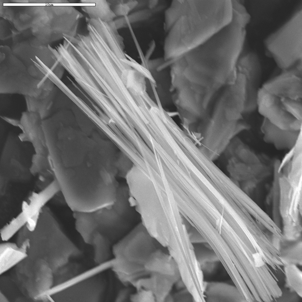 Tremolite Asbestos